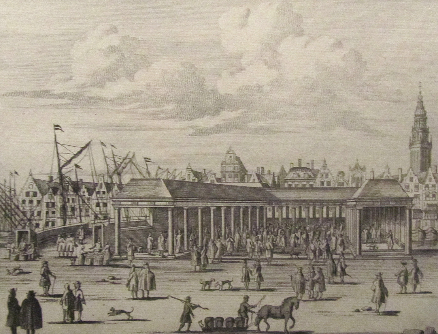 Image of the Korenbeurs (Grain Exchange), which stood on Damrak in Amsterdam. Illustration from Petrus Schenk, Afbeeldingen der voornaamste gebouwen in Amsterdam, Amsterdam, c. 1732. Photo taken at the Bijzondere Collecties (Special Collections) of the University of Amsterdam